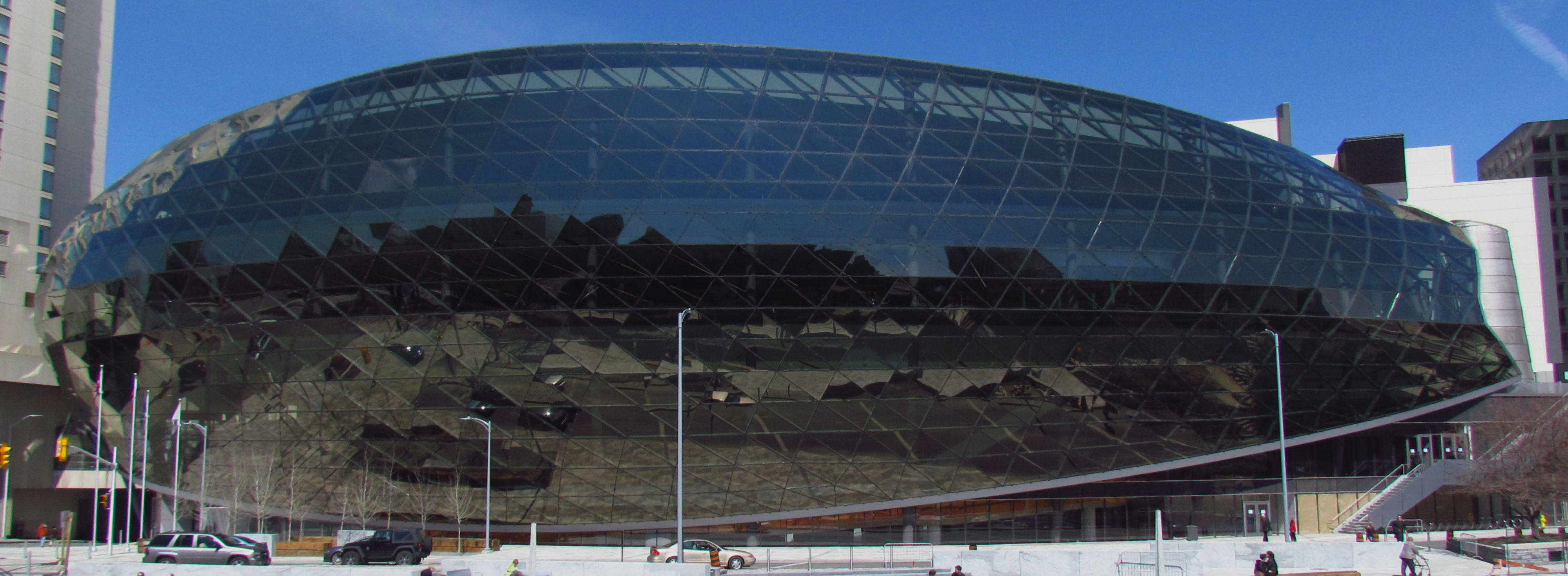 Ottawa Convention Centre, Ottawa, Ontario, Canada